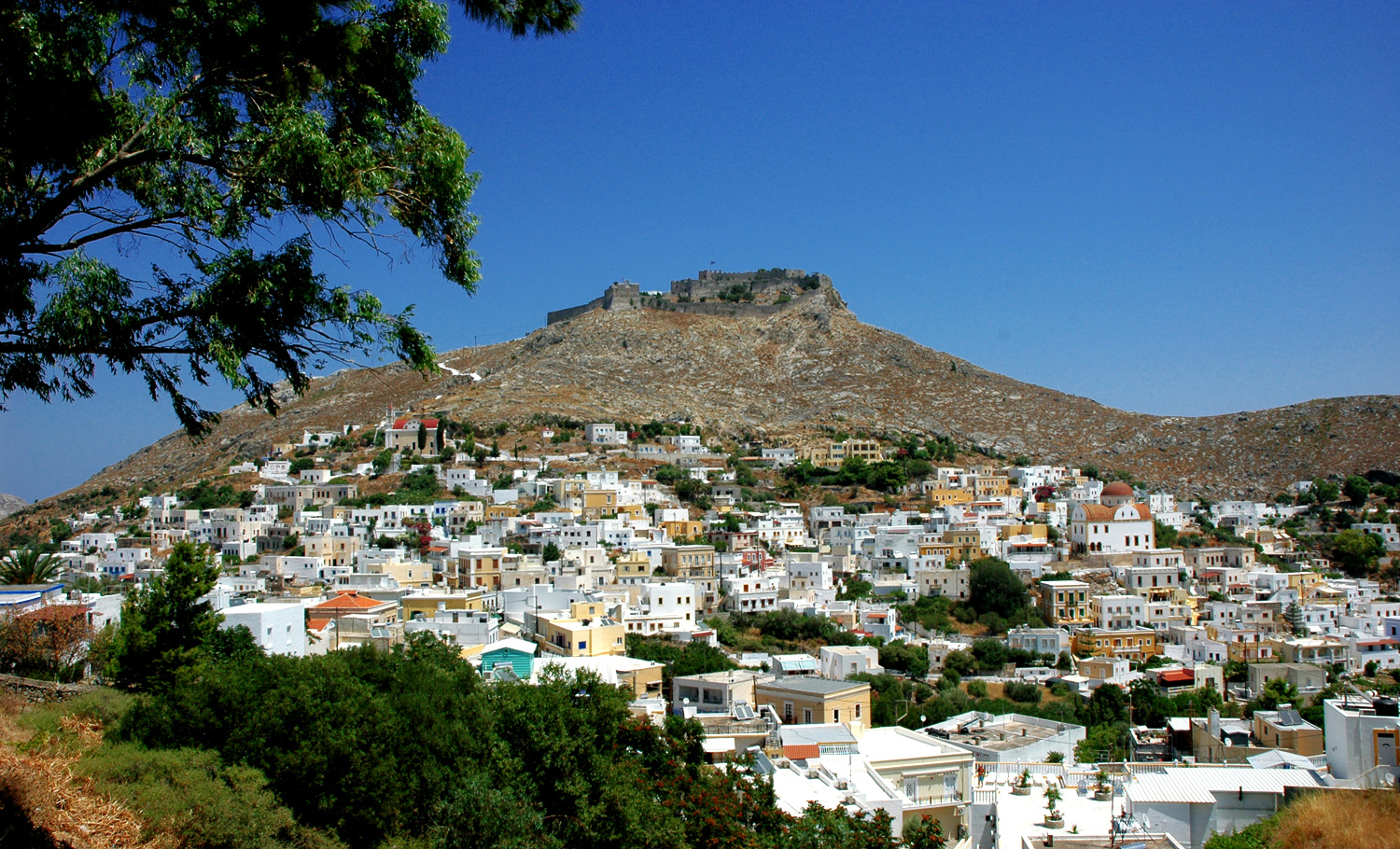 Aghia Marina, Leros island, Greece